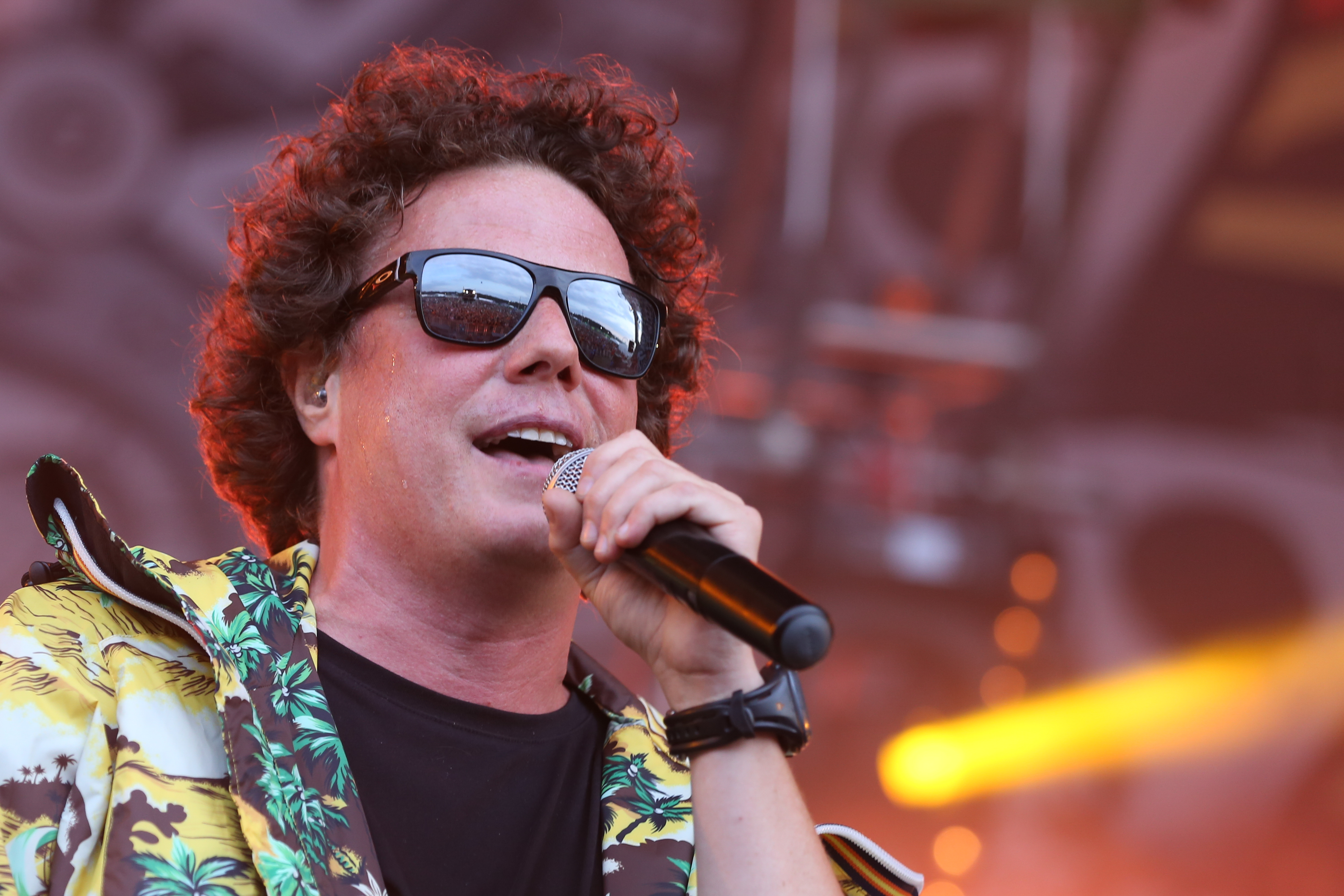 Pol'and'Rock Festival in 2019.